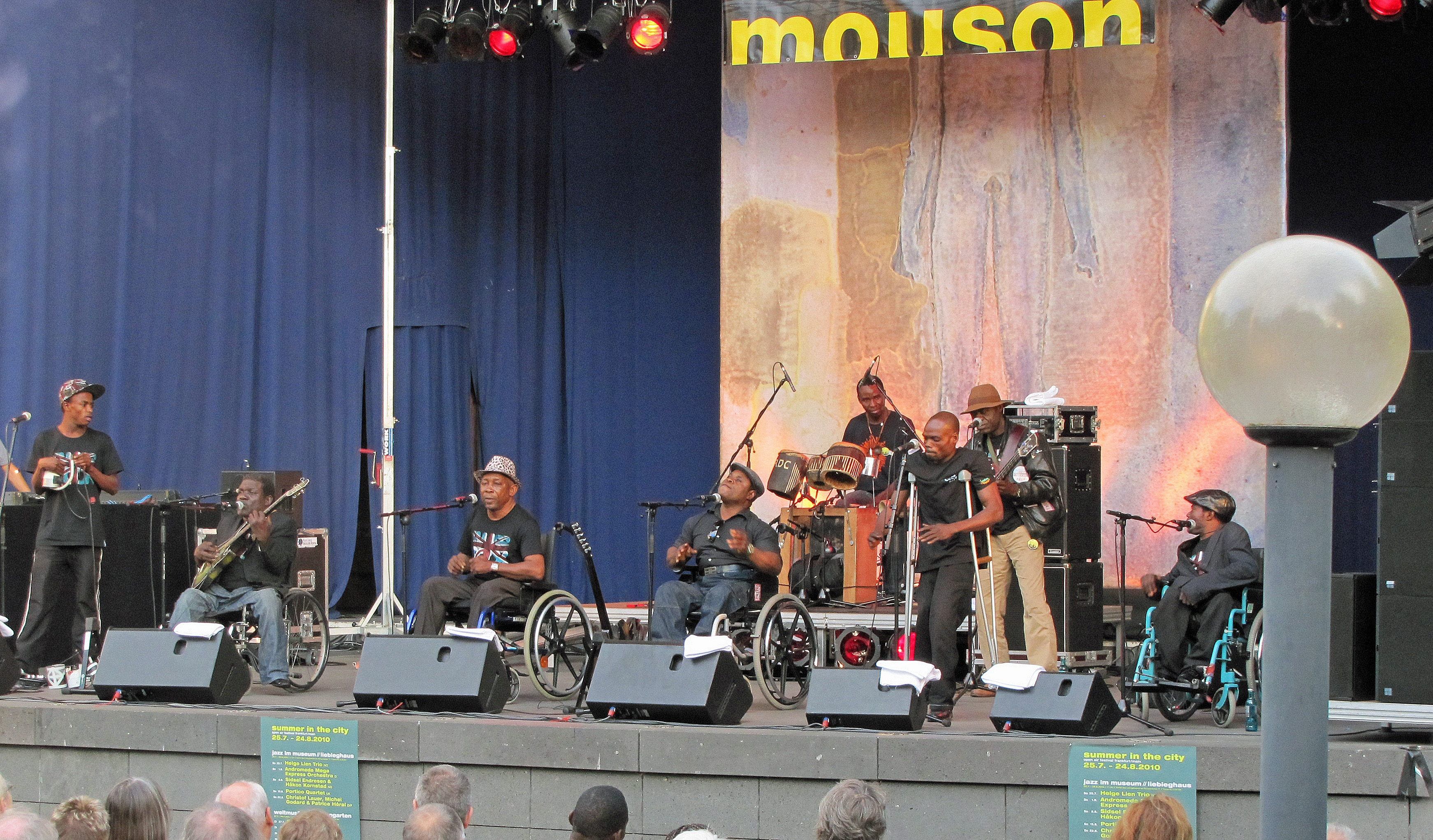 "STAFF BENDA BILILI", a group of 8 paraplegic street musicians from Kinshasa, 2010 at "Palmengarten" in Frankfurt am Main, Germany.